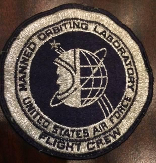 MOL patch from NRO